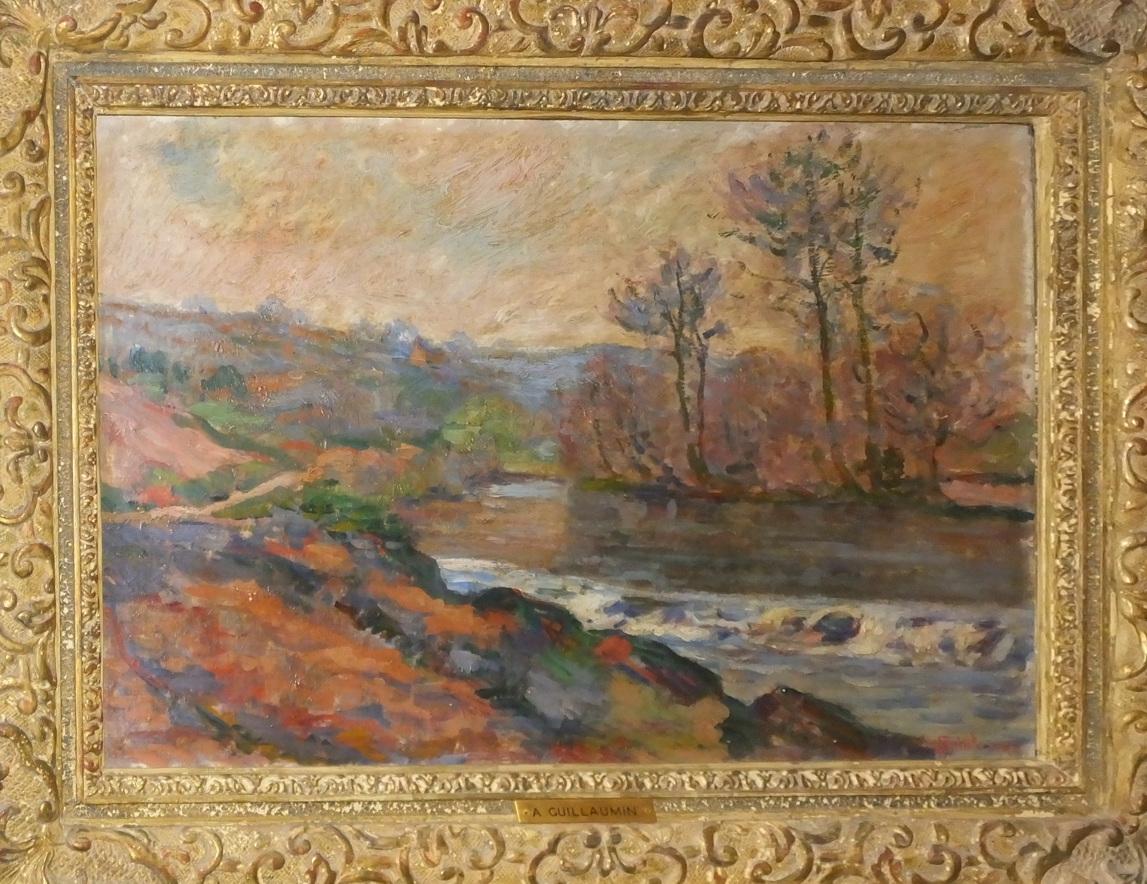 Taken during the tour and editathon at the Judges' Lodgings, Lancaster. Jean Baptiste Armand Guillaumin (1841-1927). Catalogue number: LANMS: 1995.29.1. La Creuse a Genetin c. 1880 Oil on canvas This is a retouched picture, which means that it has been digitally altered from its original version. Modifications: Perspective tool.